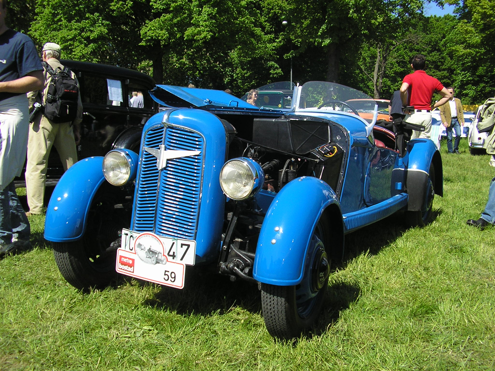 1937 Adler Triumph Sport